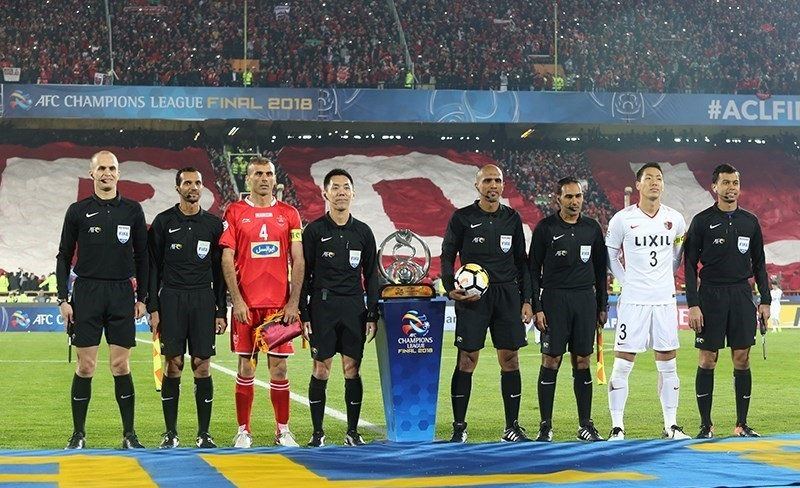 AFC Champions League Final 2018